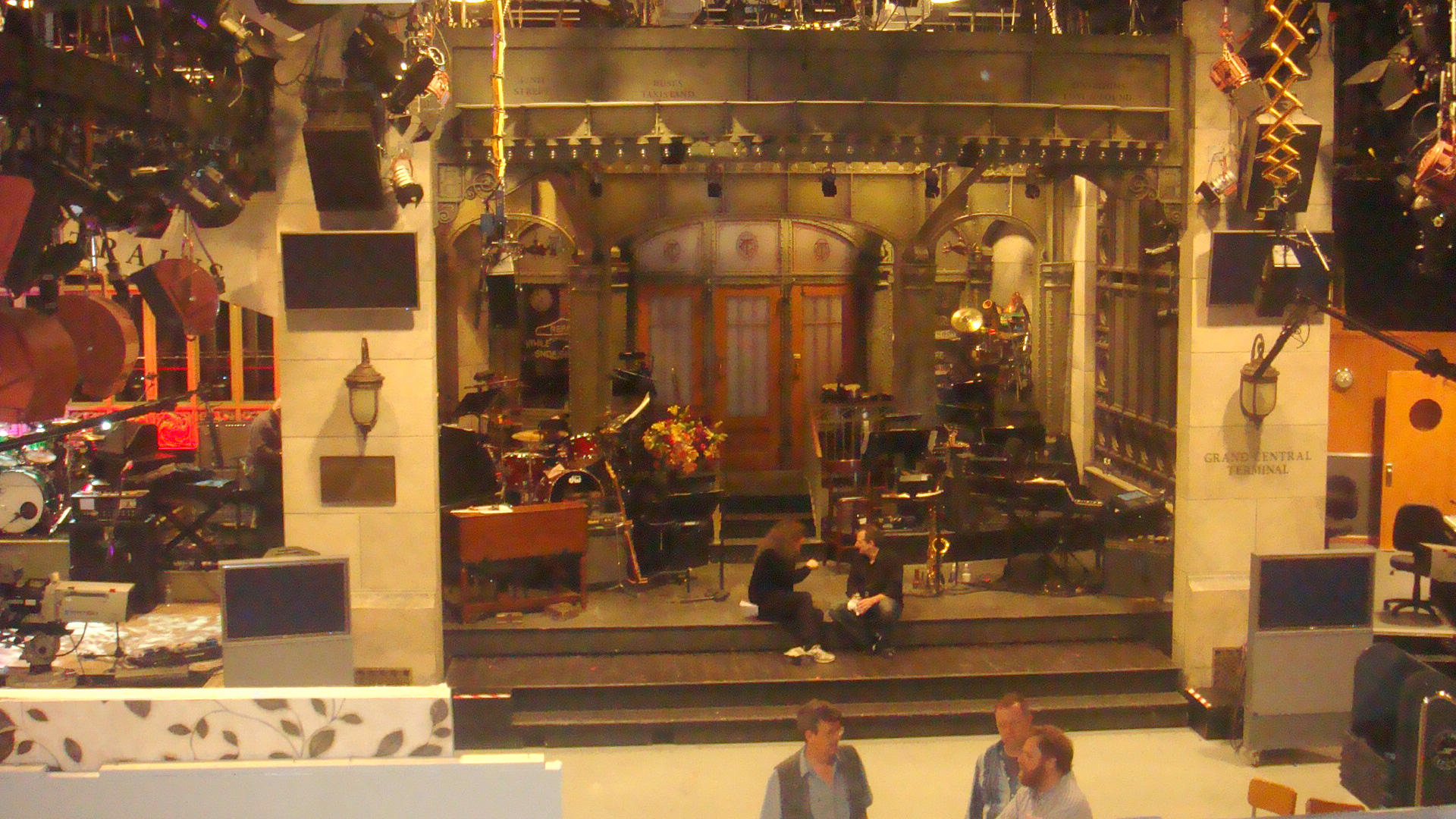 The SNL stage, 15 minutes before the action starts.